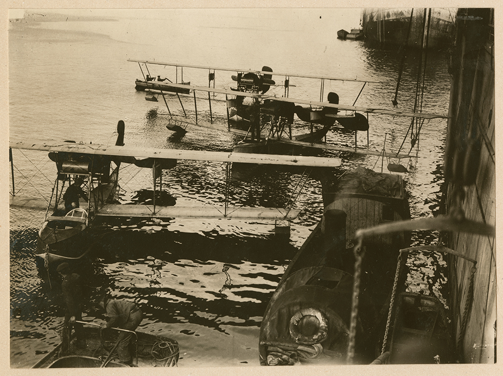 Title: [Docked Schetinin M-9 seaplanes] Creator: Unknown Date: Spring 1918 Part Of: File: ag1982_0048x_37b_sm_opt.jpg Rights: Please cite DeGolyer Library, Southern Methodist University when using this file. A high-resolution version of this file may be obtained for a fee. For details see the web page. For other information, . Both the full portfolio and the 263 individual photographs, scanned at a higher resolution, are available. View the full portfolio: View the individual photographs: For more information and to view the image in high resolution, View the